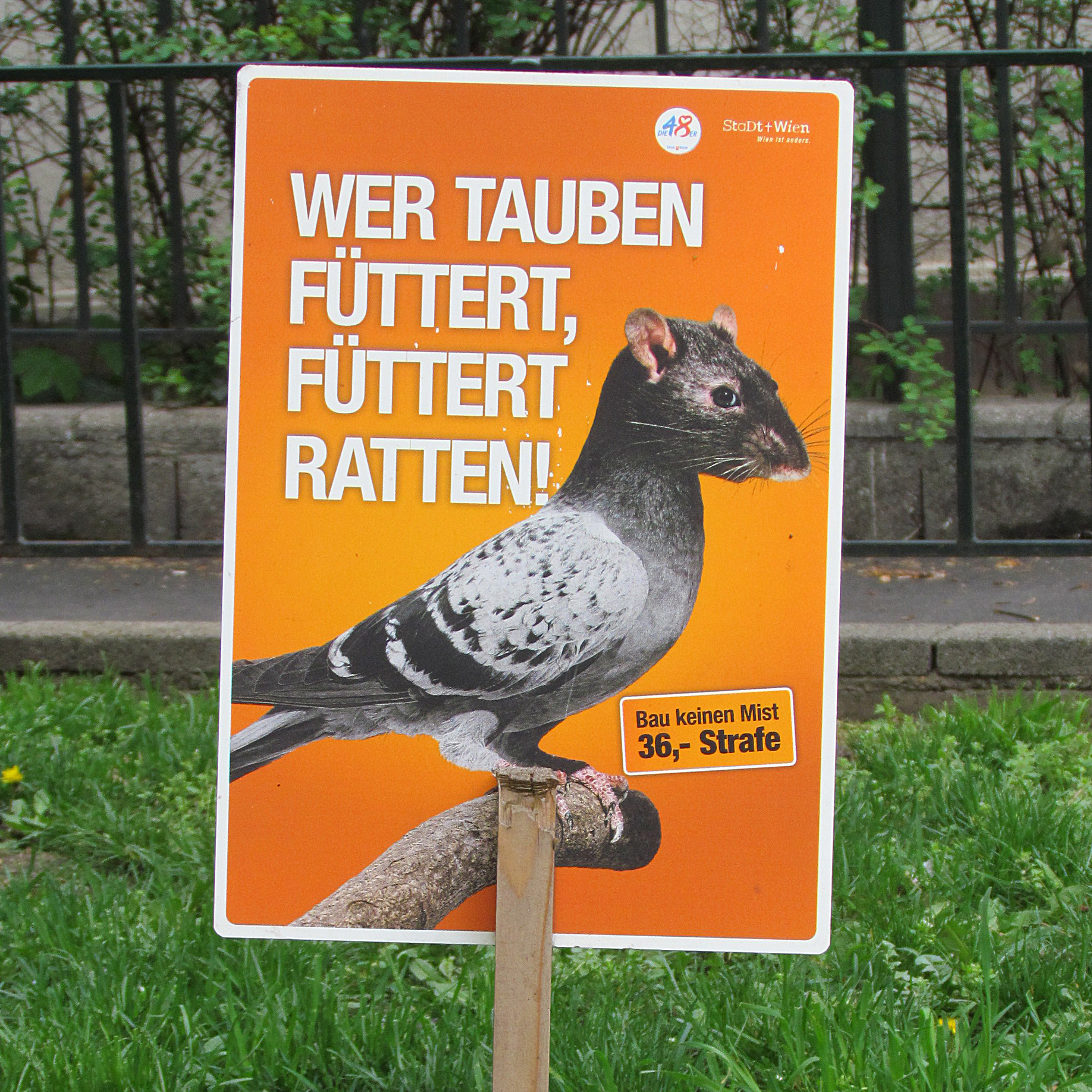 If you feed the pigeons, you feed the rats, warning in Wien